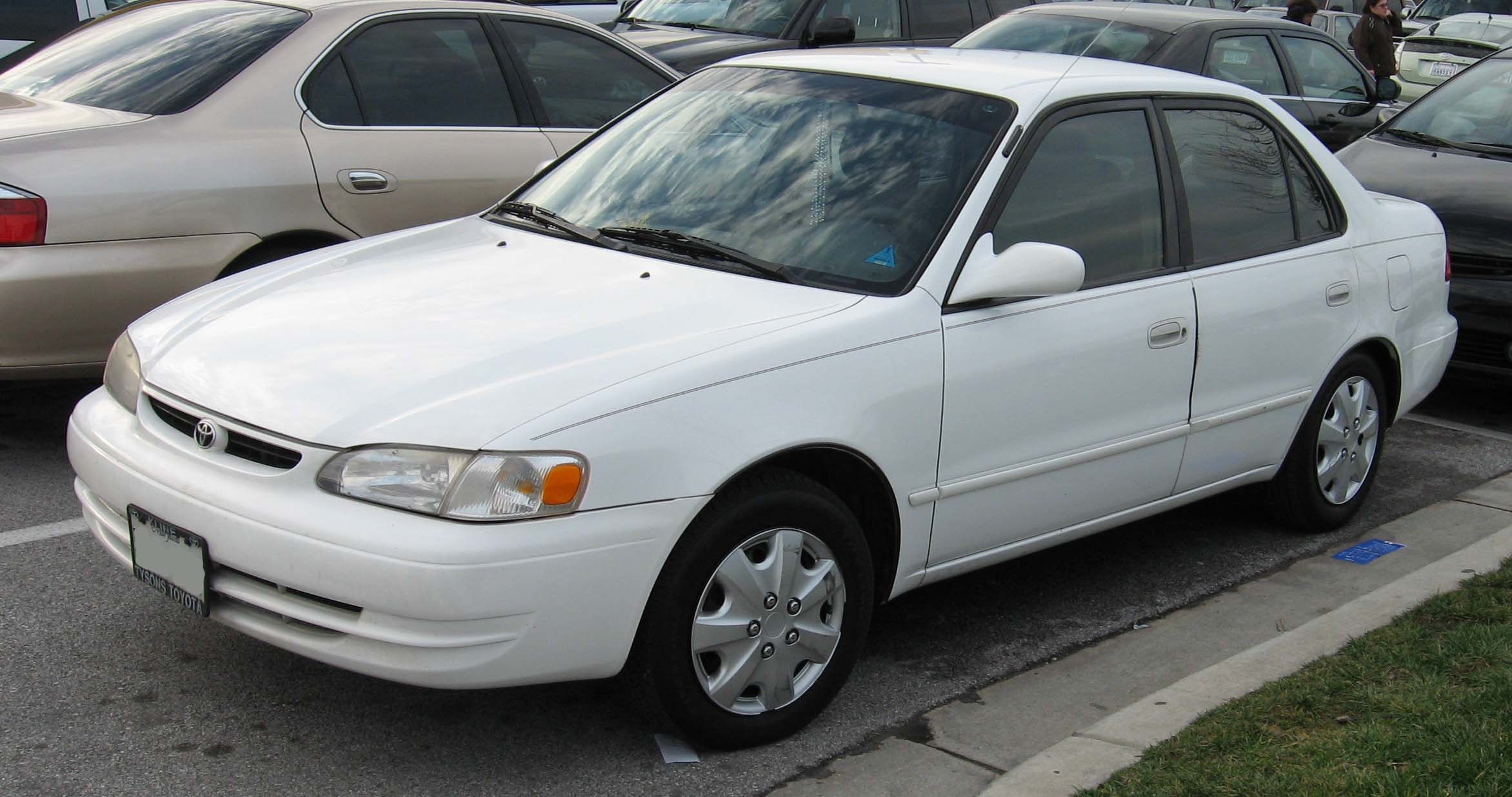 1998-2000 Toyota Corolla photographed in USA.